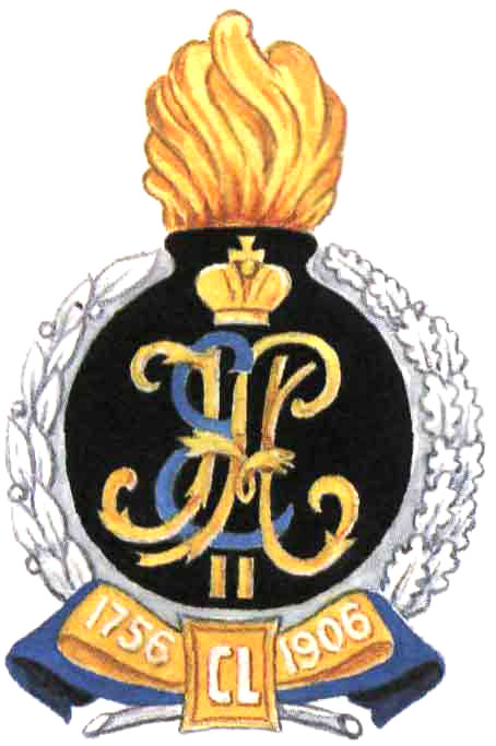 Badge of Tavrichesky 6-th grenader Regiment